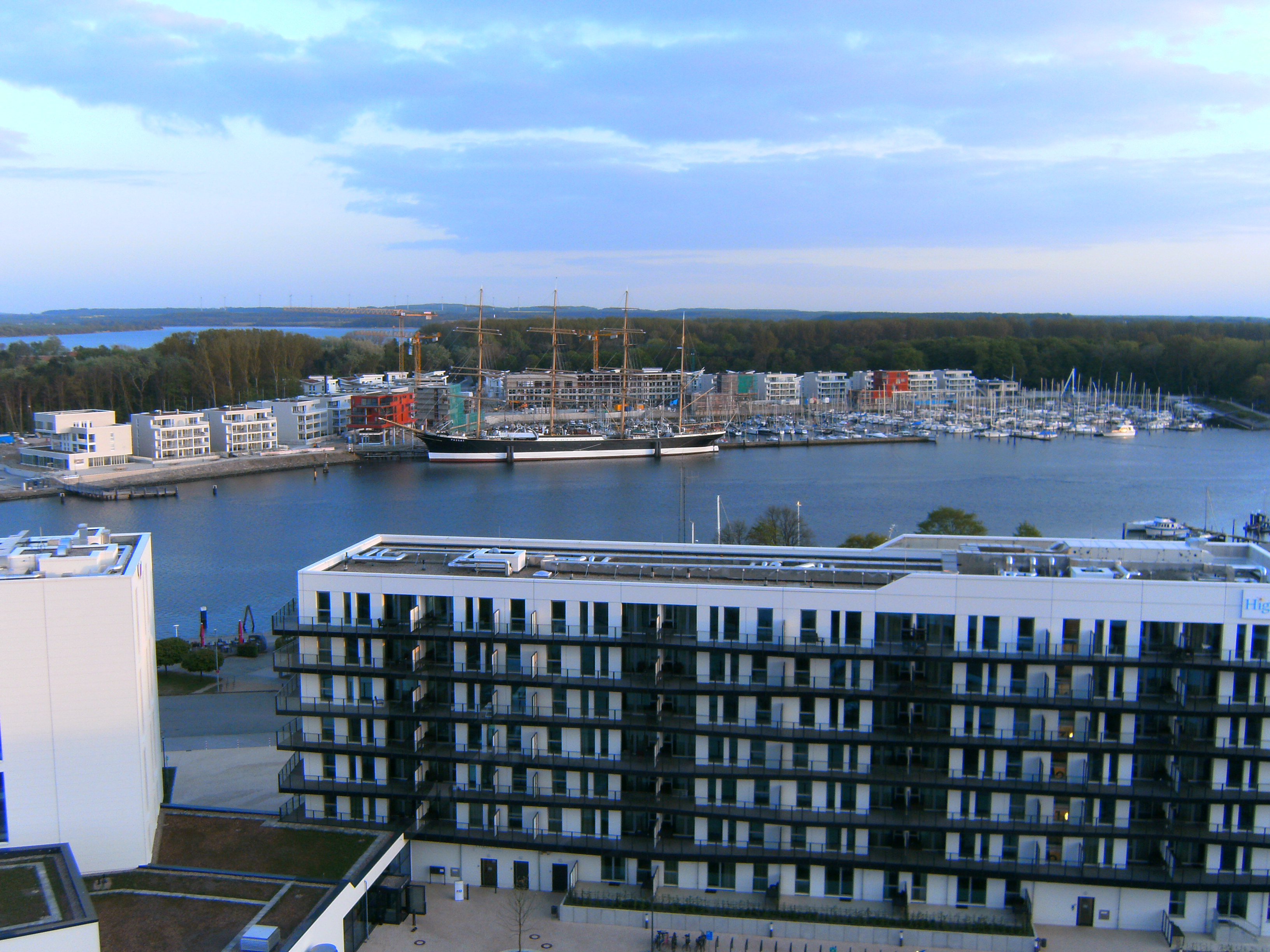 View over the river Trave to the Priwall with buildings of the Waterfront quarter in the year 2019.